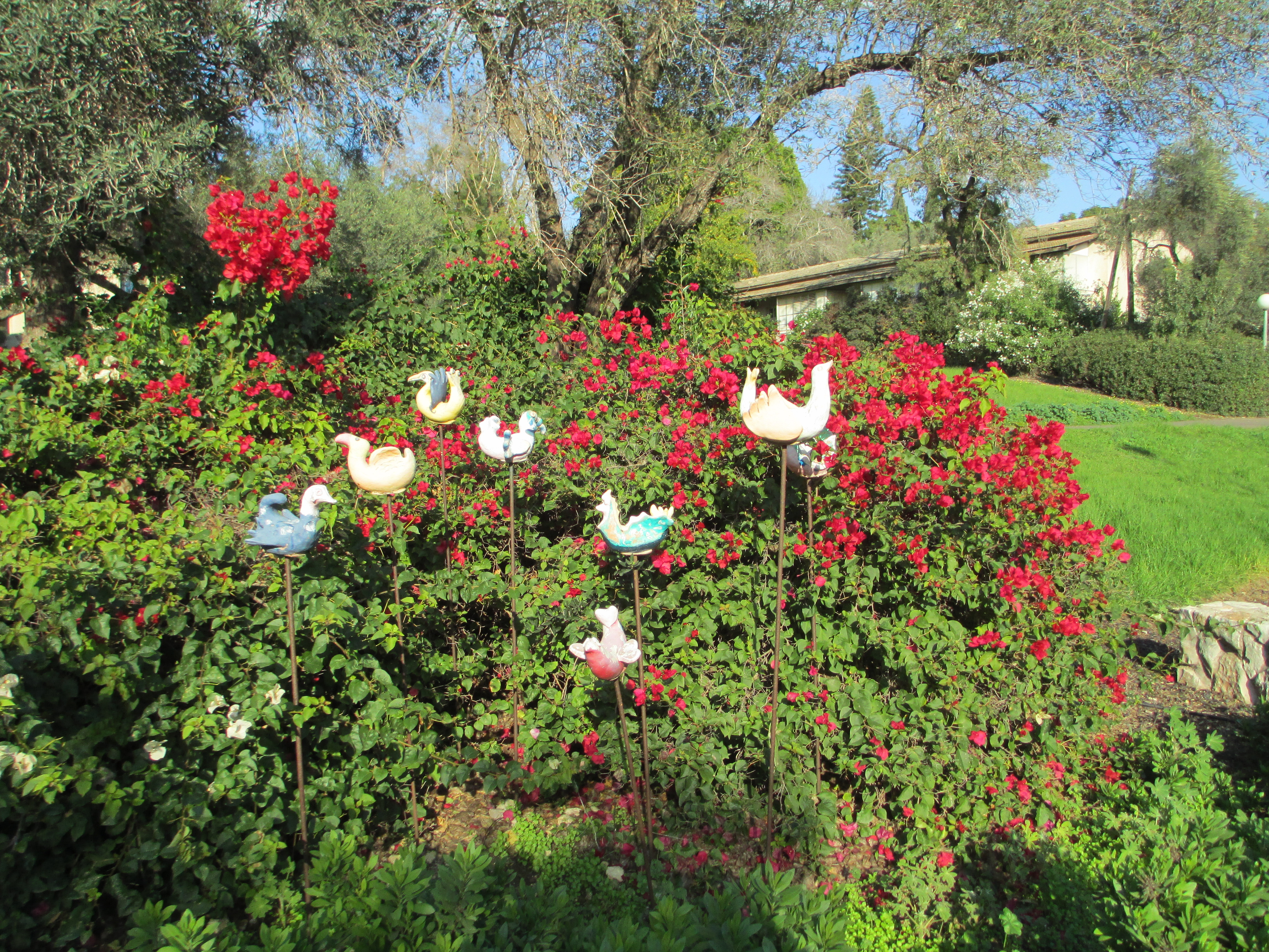 flowers and bird sculptures in kibbutz ginegar פרחים ופסלי ציפורים בקיבוץ גניגר